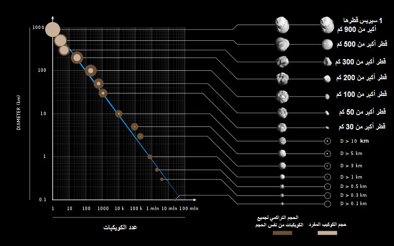 Asteroids by size and number